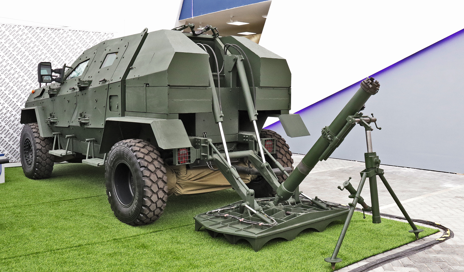 didgori Meomari with 120 mm mortar module in IDEX 2019